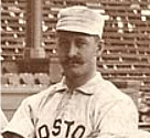 Photo of Tommy Tucker, baseball player